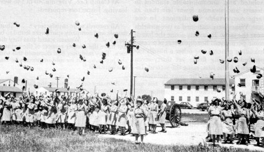 Mass-enlistment ceremony of Women's Army Corps at Camp Atterbury, Indiana.